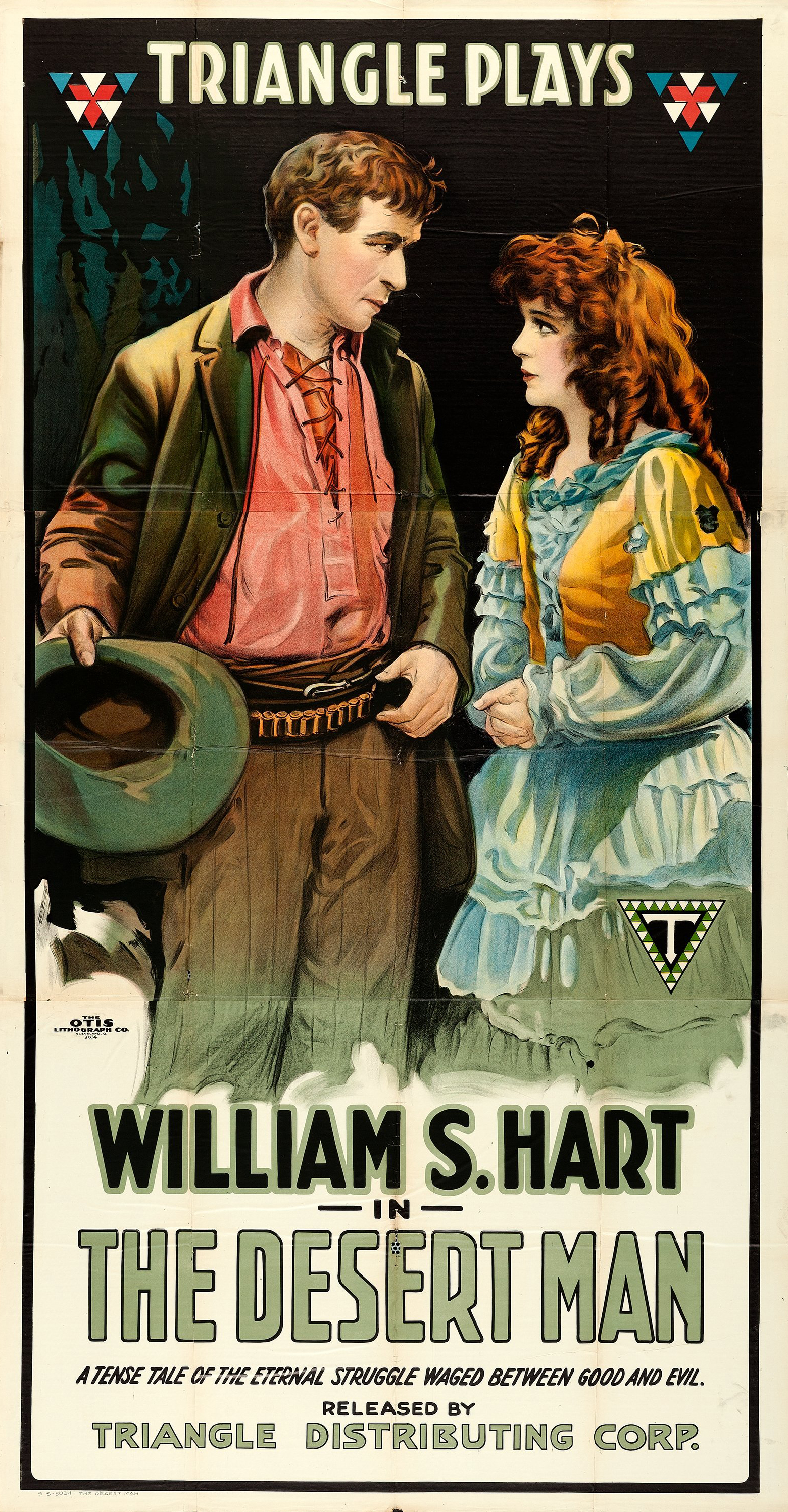 Poster for the 1917 film The Desert Man